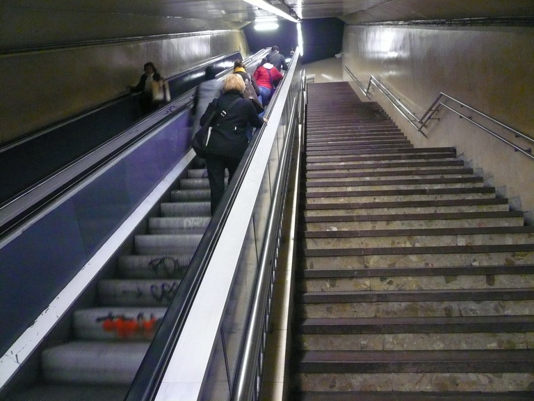 Vallcarca station, Barcelona Metro